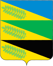 Coat of arms of Aleksandrovskoye municipality, Yeisk Raion, Krasnodar Kray, Rusia